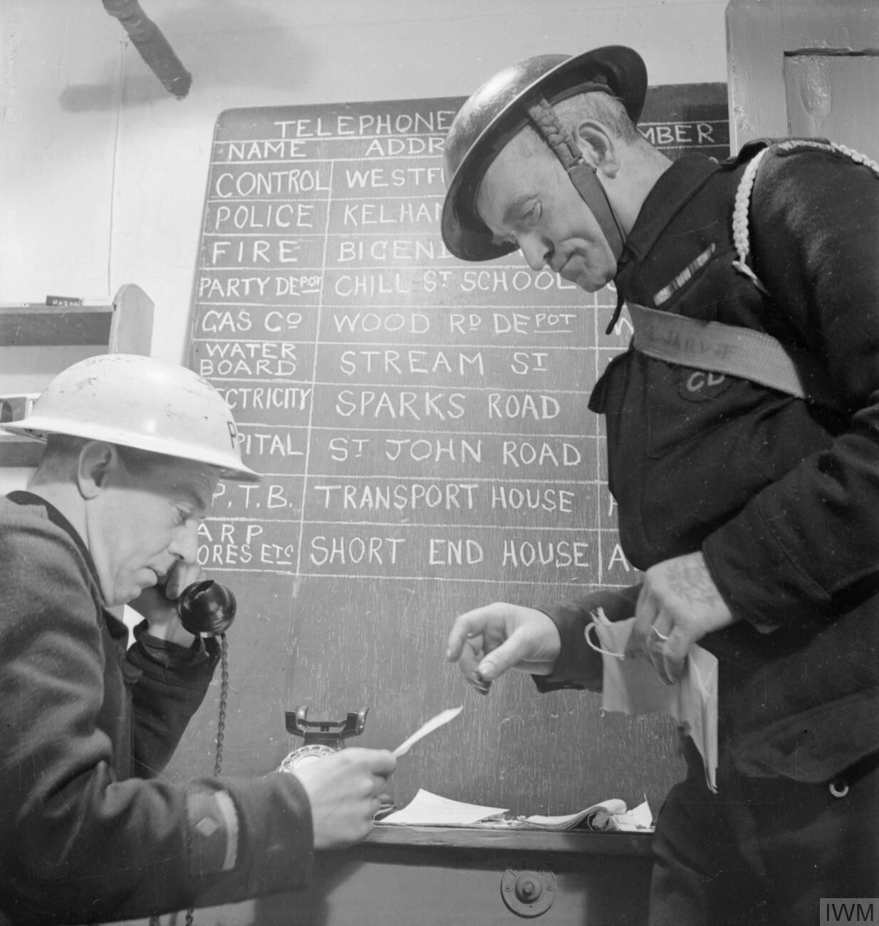 The Reconstruction of 'an Incident'- Civil Defence Training in Fulham, London, 1942 An Air Raid Warden gives his report of the local incident to a colleague at the ARP post, which is then telephoned through to the Control Centre. Behind them, a blackboard lists the names and addresses of the various services to contact, including the electricity company, the water board and the fire station. The names of the streets listed are false, and just serve as an illustration during this reconstruction.